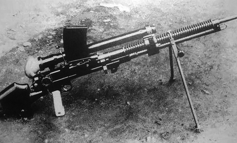 Infantry version of the Type 97 heavy tank machine gun.